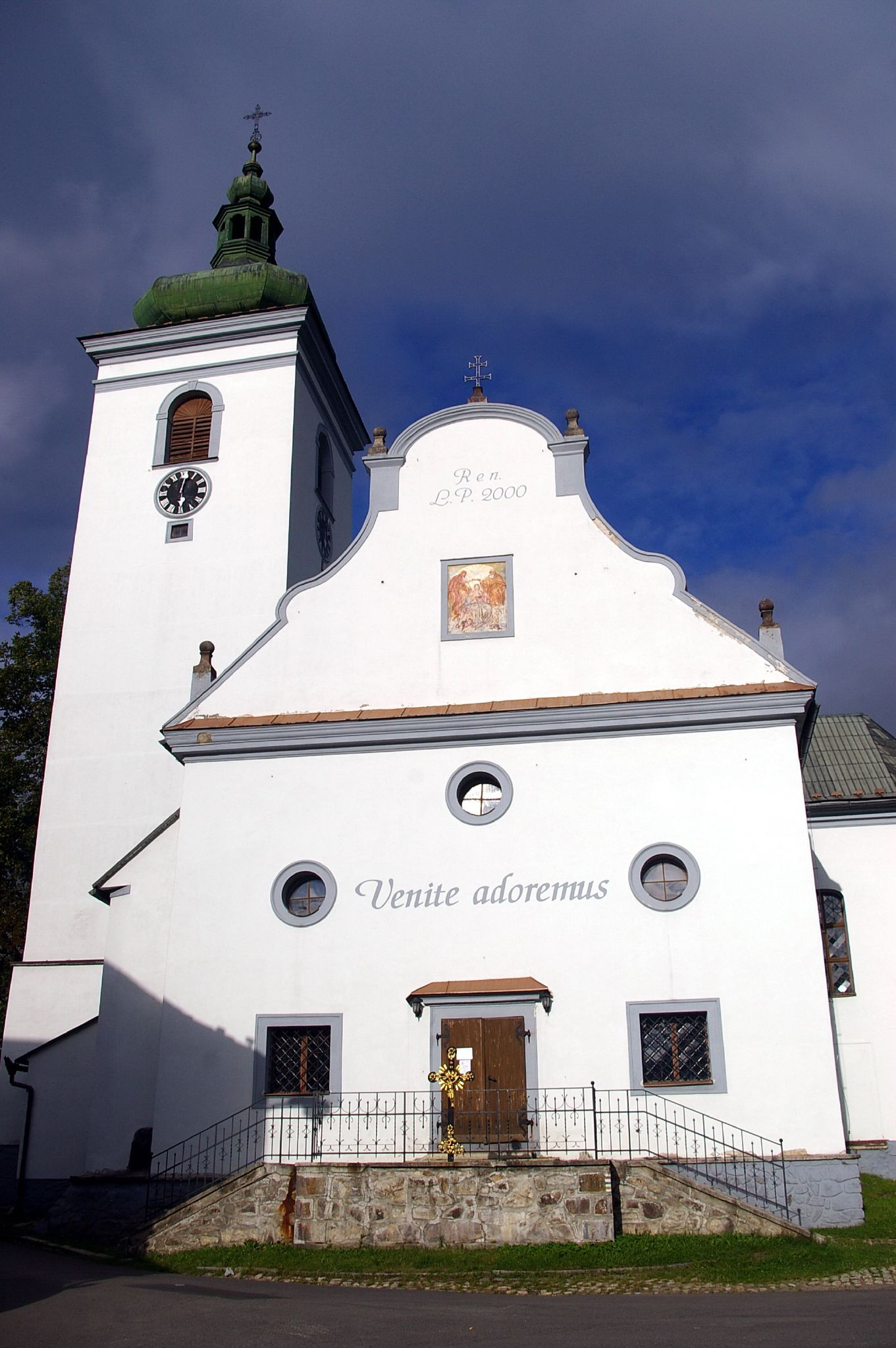 St Catherine church in Volary, Prachatice District, Czech Republic.